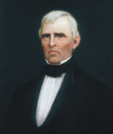 Kentucky governor and U.S. Attorney General John J. Crittenden